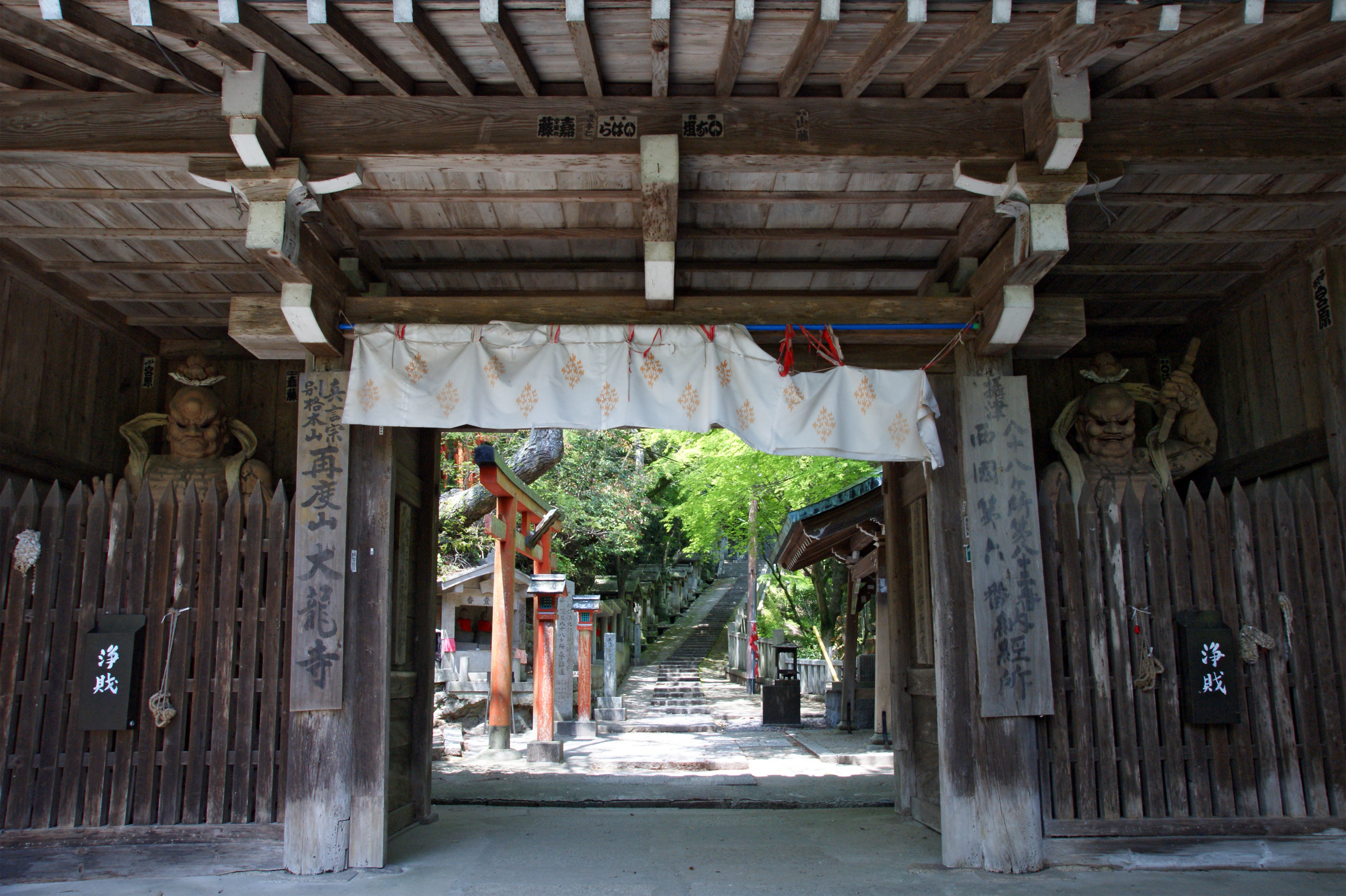 Tairyuji in Kobe, Hyogo prefecture, Japan